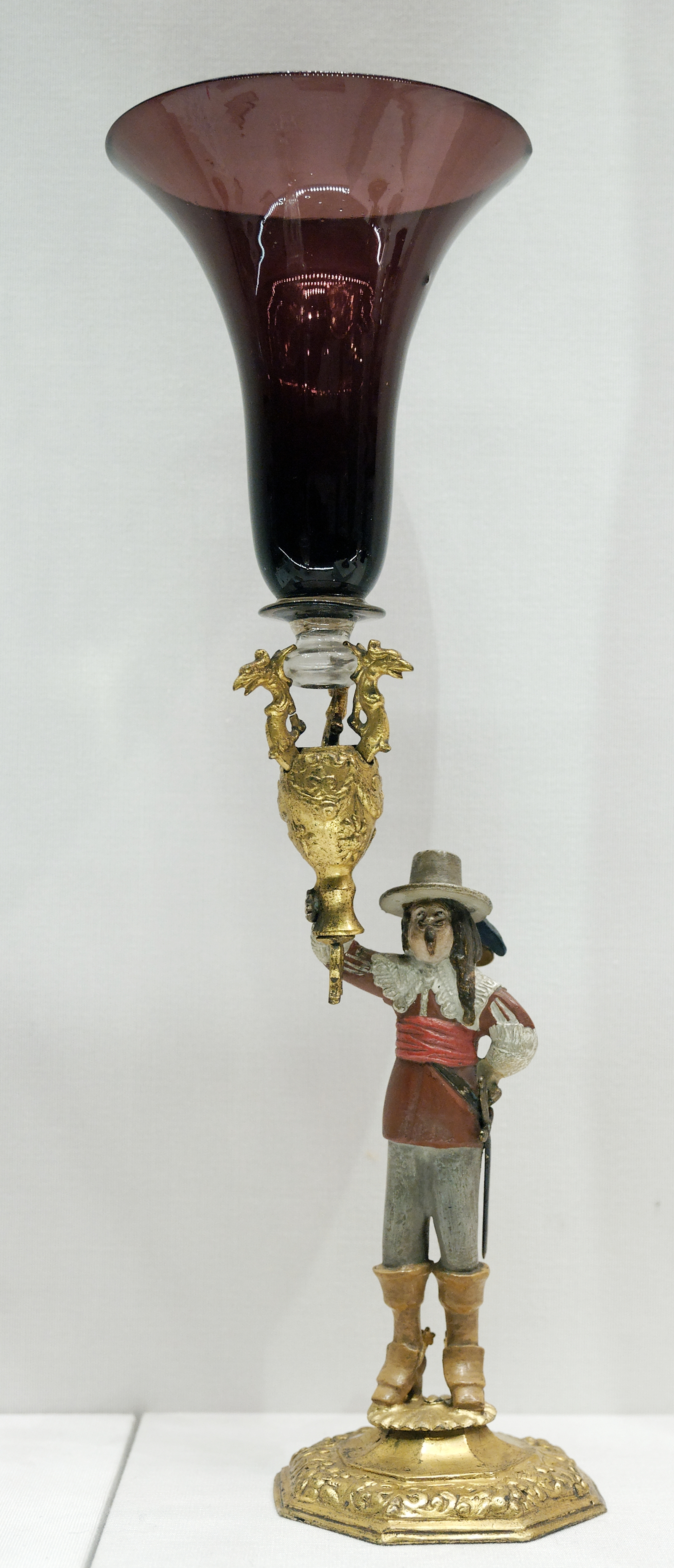 Stem glass, German artwork.